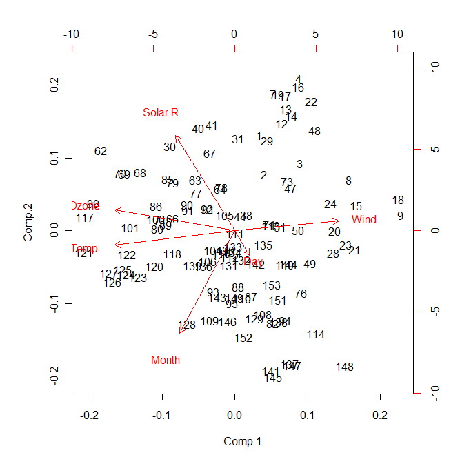 A principal Component Analysis Example with air quality data available with R